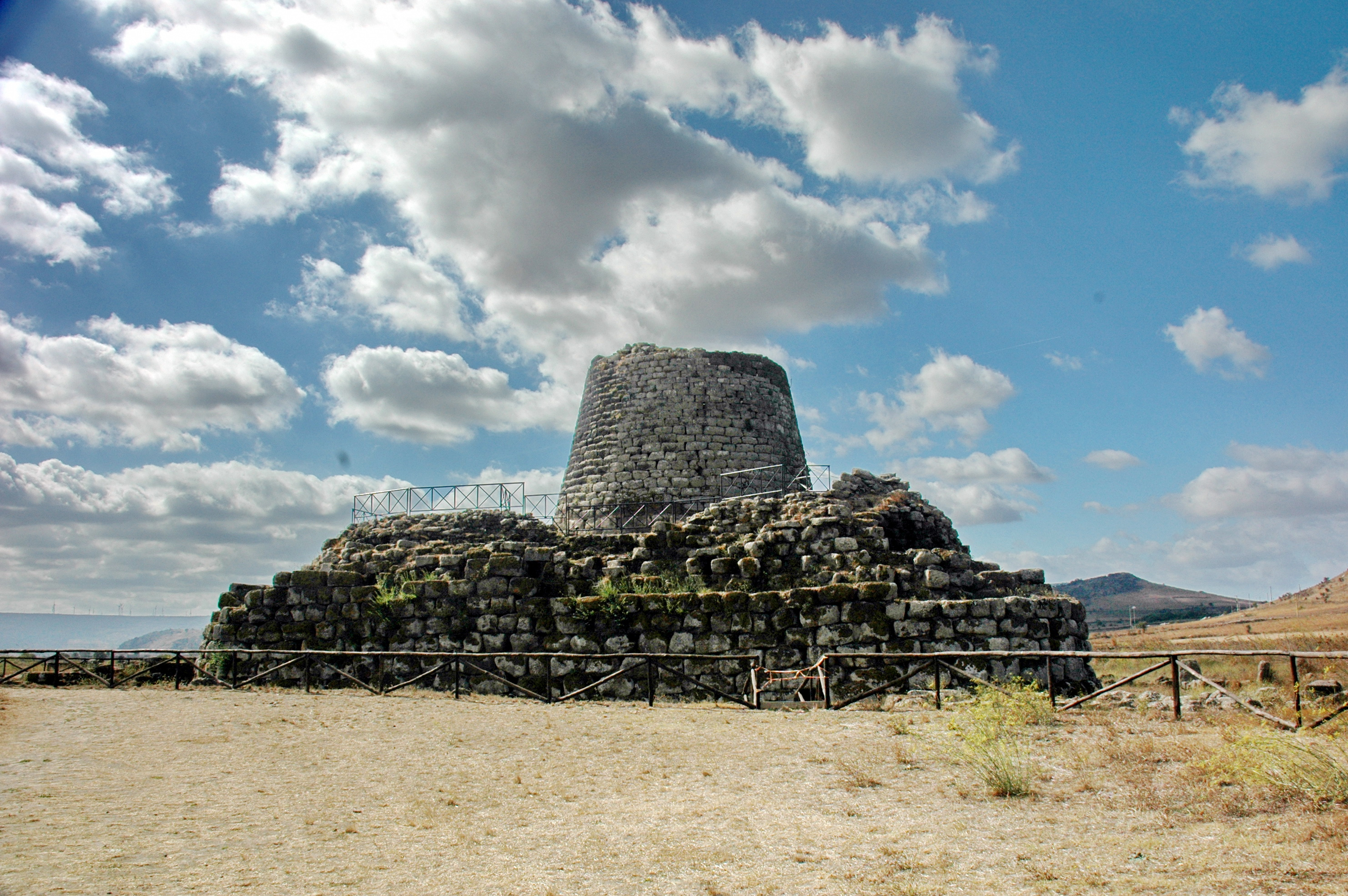 Nuraghe in Toralba-Sant'Antine